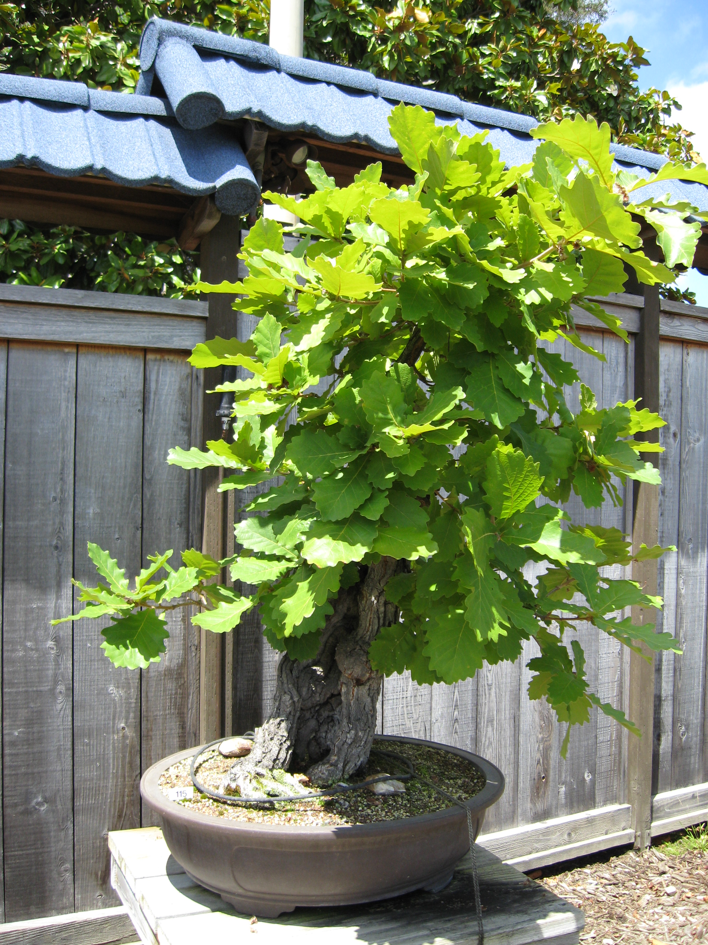 Civil war era bonsai from the Golden State Bonsai Federation's Collection-North in Oakland, California. It is an informal upright style Daimyo Oak (Quercus dentata), donated by Dr. Robert Gotcher. The tree was a gift to the United States envoy to China, Mr. Burlingame, in 1863.